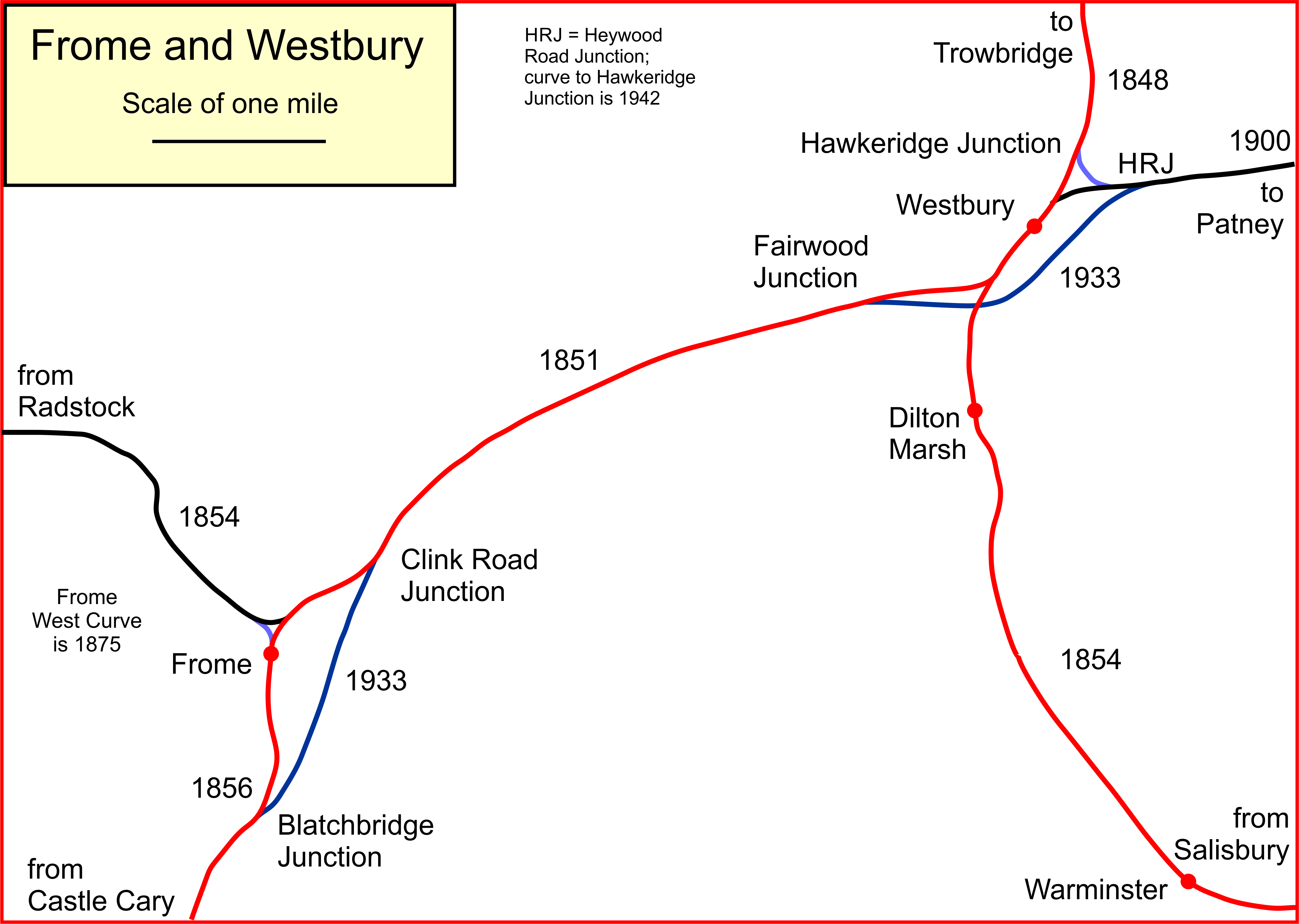 Diagram of Westbury and From avoiding lines GWR England 1933